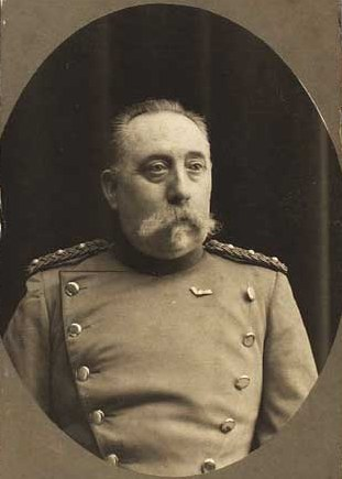 Julius Christian August Schwarz-Nielsen (1847-1922), Danish army officer